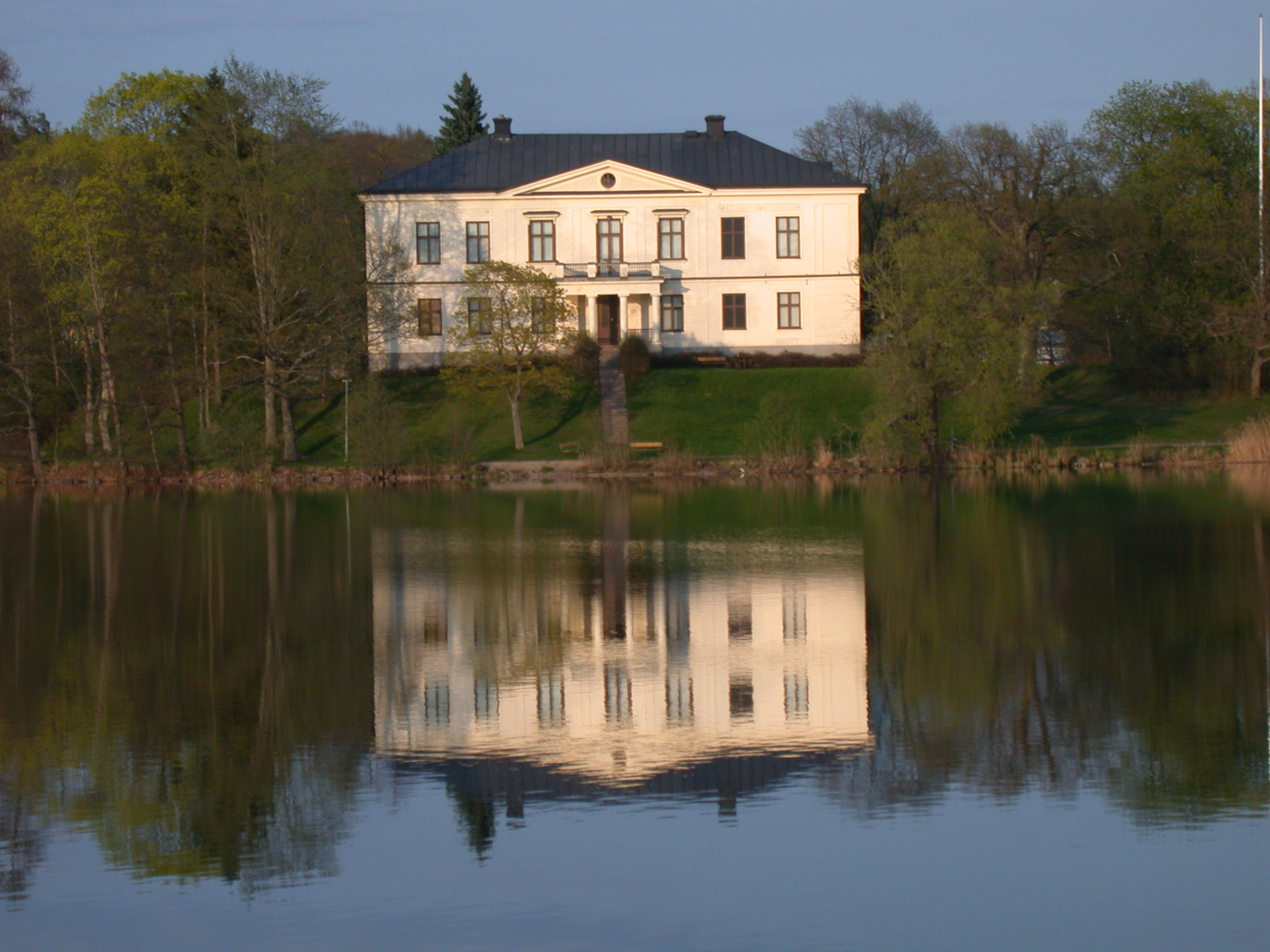 Charlottenborg castle, Motala, Sweden. Photo by User:Riggwelter May 10, 2006.